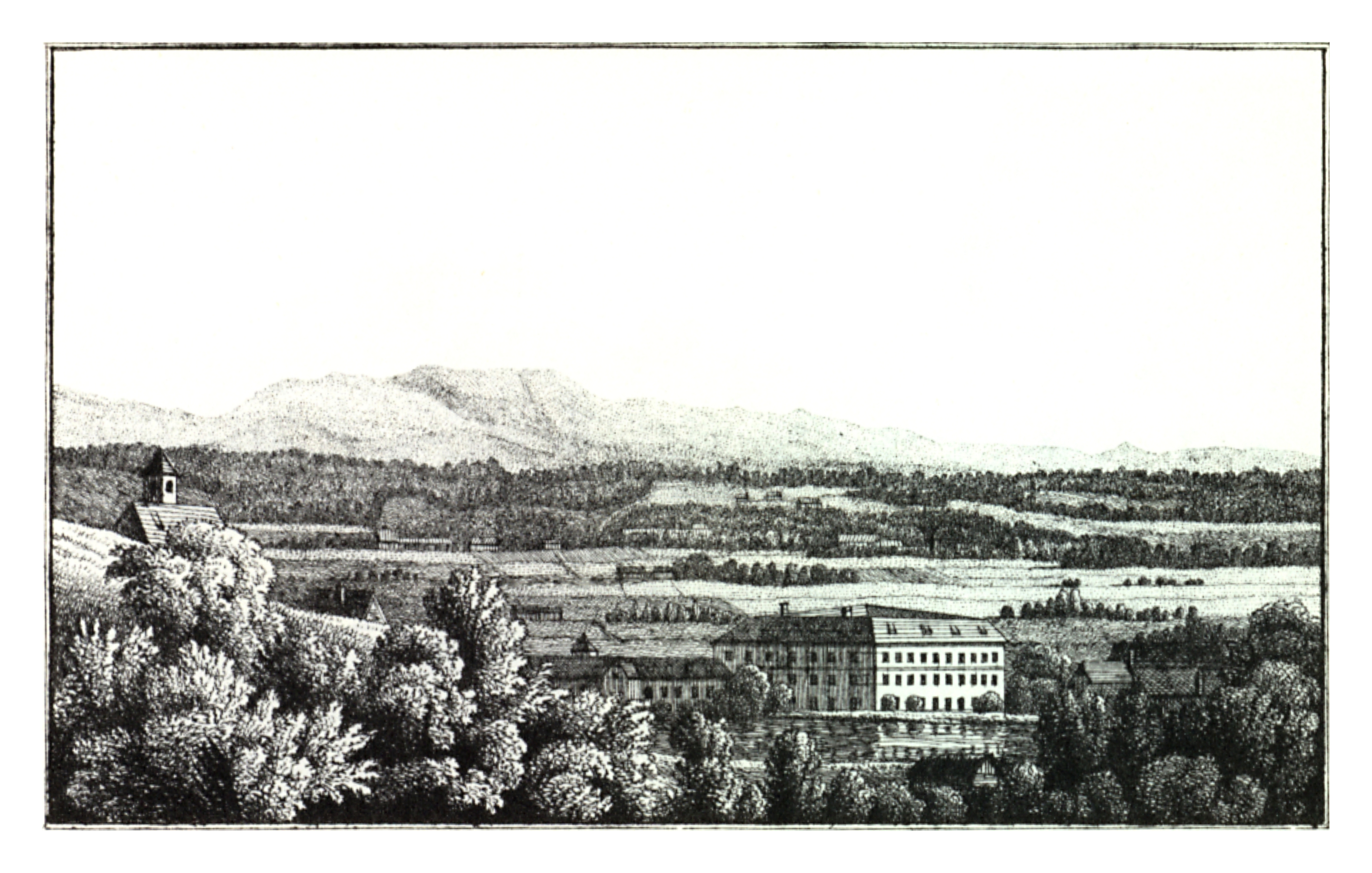 J. F. Kaiser - lithographirte Ansichten der Steyermärkischen Städte, Märkte und Schlösser Graz, 1825 Scanprojekt Community Projektbudget 2012 This scan or this PDF-file was created within the GLAM-project Bookscanning, supported by Wikimedia Germany and Wikimedia Austria as a part of the community-project to capture books, documents and pictures which are not eligible to copyright or for which the copyright has expired. This document describes or depicts an object which is located in Austria today. Send requests for uncompressed scans to Hubertl. This work is in the public domain in its country of origin and other countries and areas where the copyright term is the author's life plus 100 years or less. You must also include a United States public domain tag to indicate why this work is in the public domain in the United States. This file has been identified as being free of known restrictions under copyright law, including all related and neighboring rights.